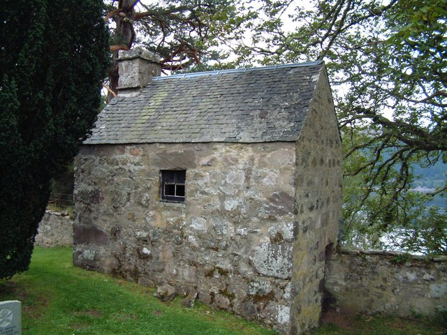 Mort House Old Boleskine Churchyard